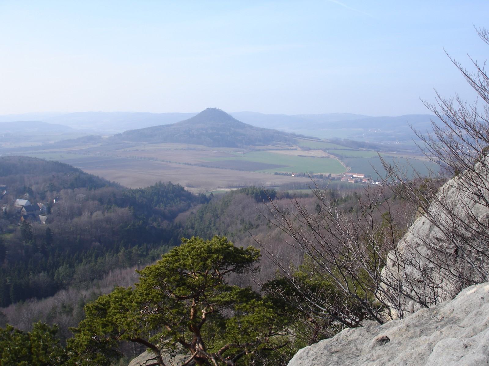 Ronov in Kokořínsko, Czech Republic. A view from the Vlhošť.